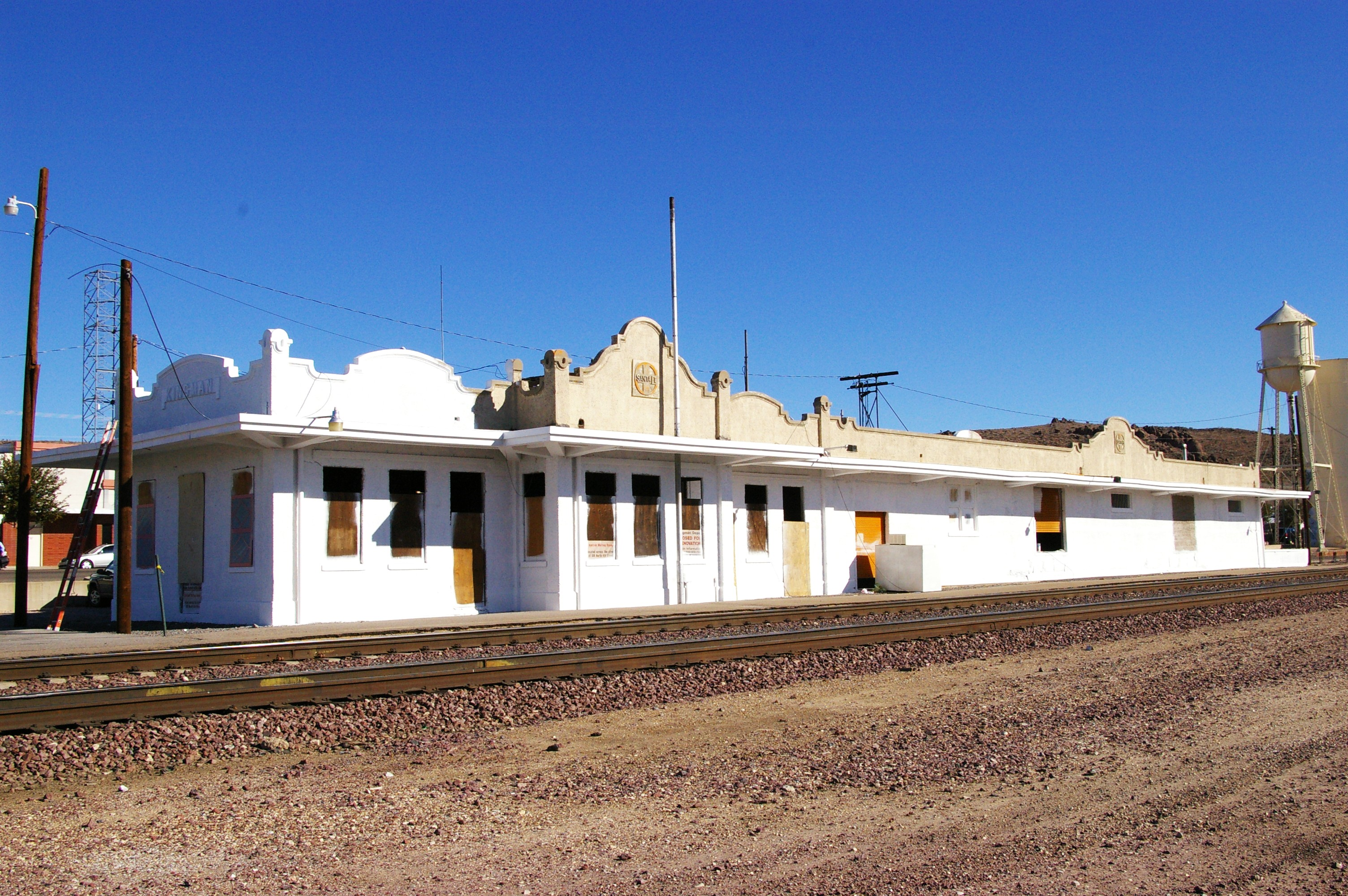 Santa Fe station in Kingman, Arizona. Originally built in 1907 and now used by Amtrak.